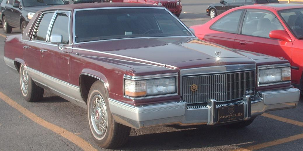 1990-1992 Cadillac Brougham photographed in Montreal, Quebec, Canada.